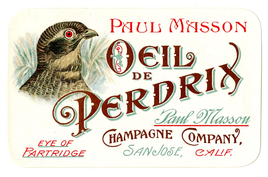 Repository: California Historical Society Collection: Paul Masson papers Date: undated Call Number: MS 1421 Digital Object ID: MS 1421_001.jpg Preferred Citation: Wine label, Paul Masson Champagne Company, Oeil de Perdix, Paul Masson papers, MS 1421, courtesy, California Historical Society, MS 1421_001.jpg.